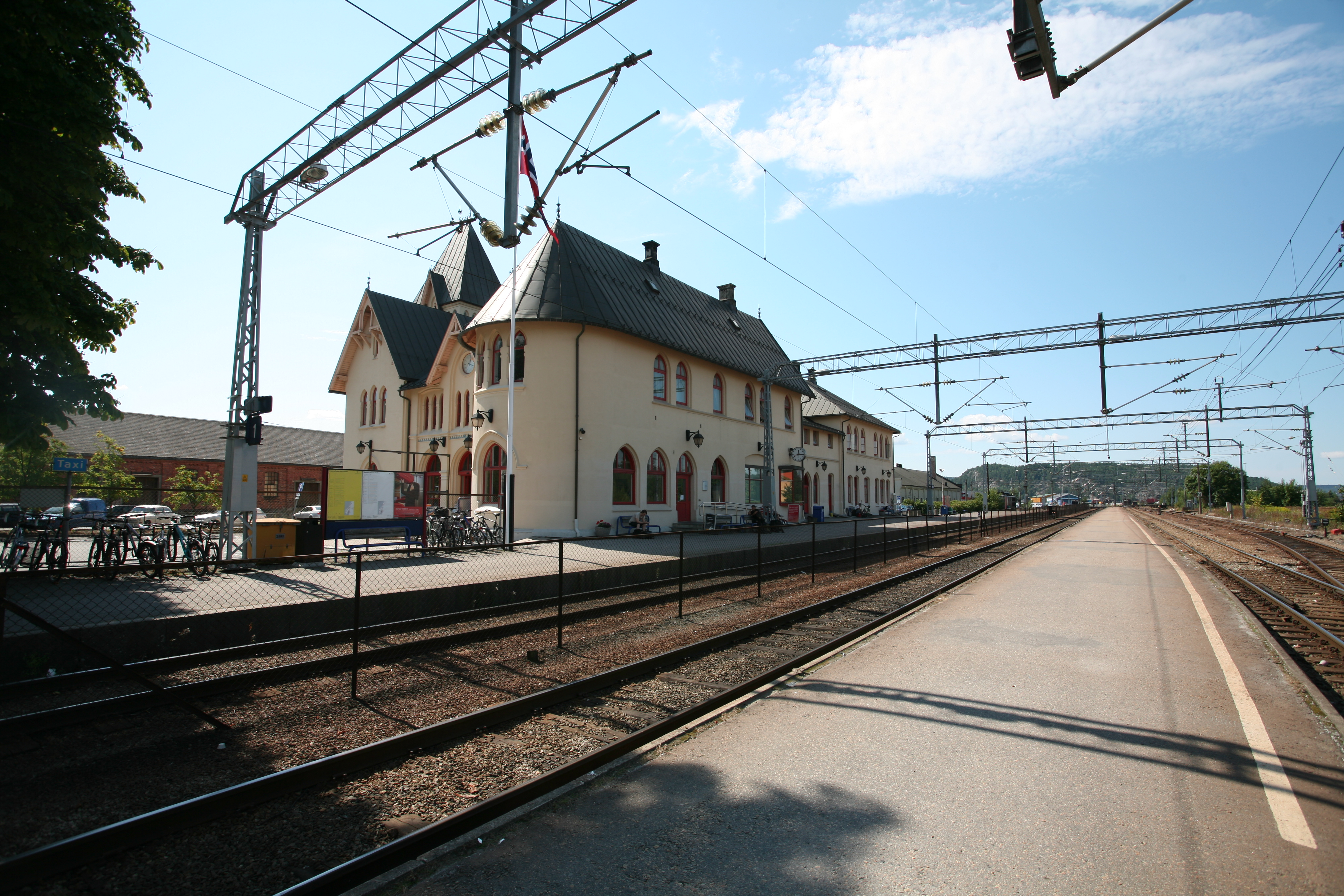 Picture of Halden Railway Station (Norway)